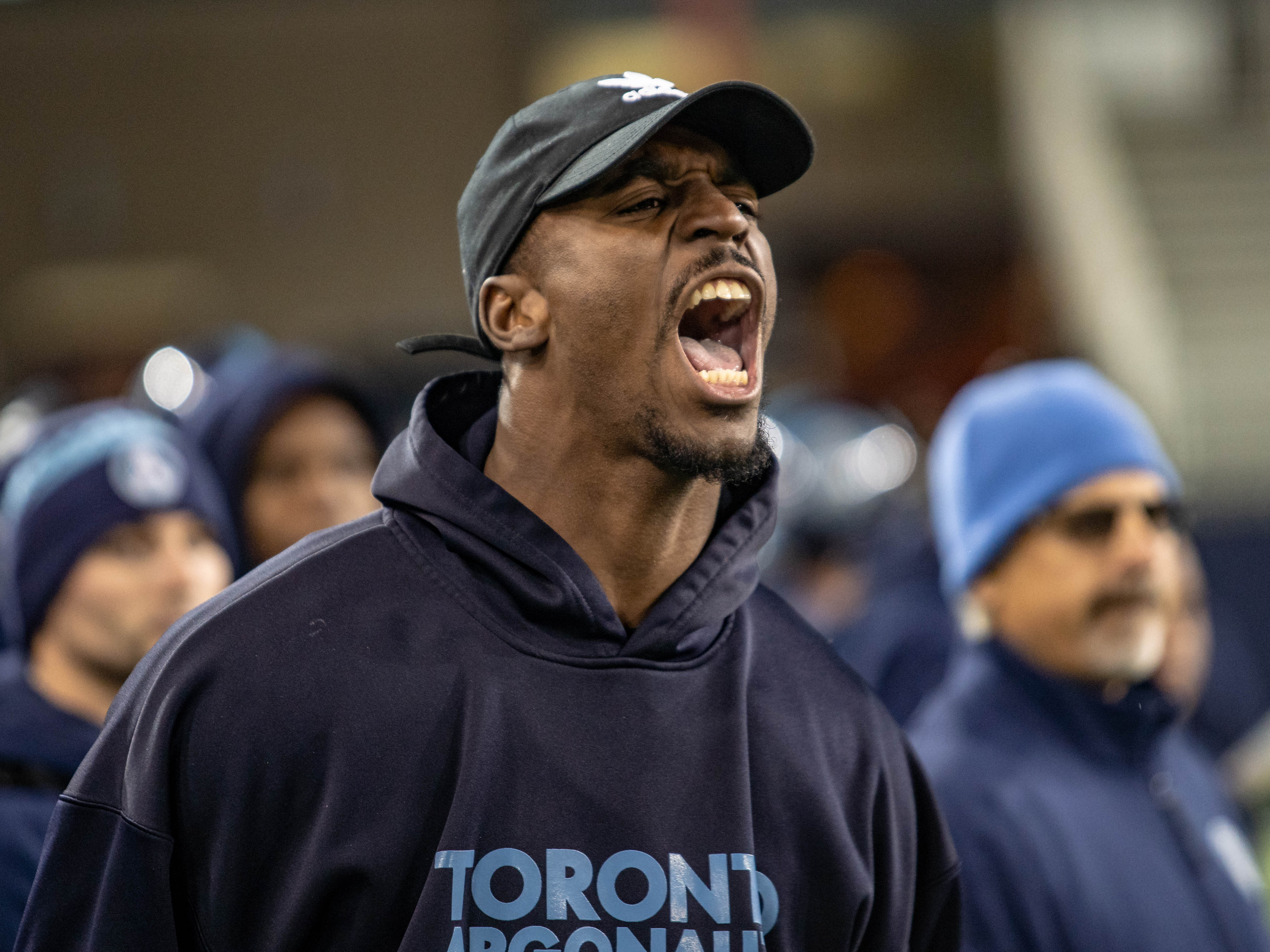 James Wilder Jr. yells during a regular season game while injured.